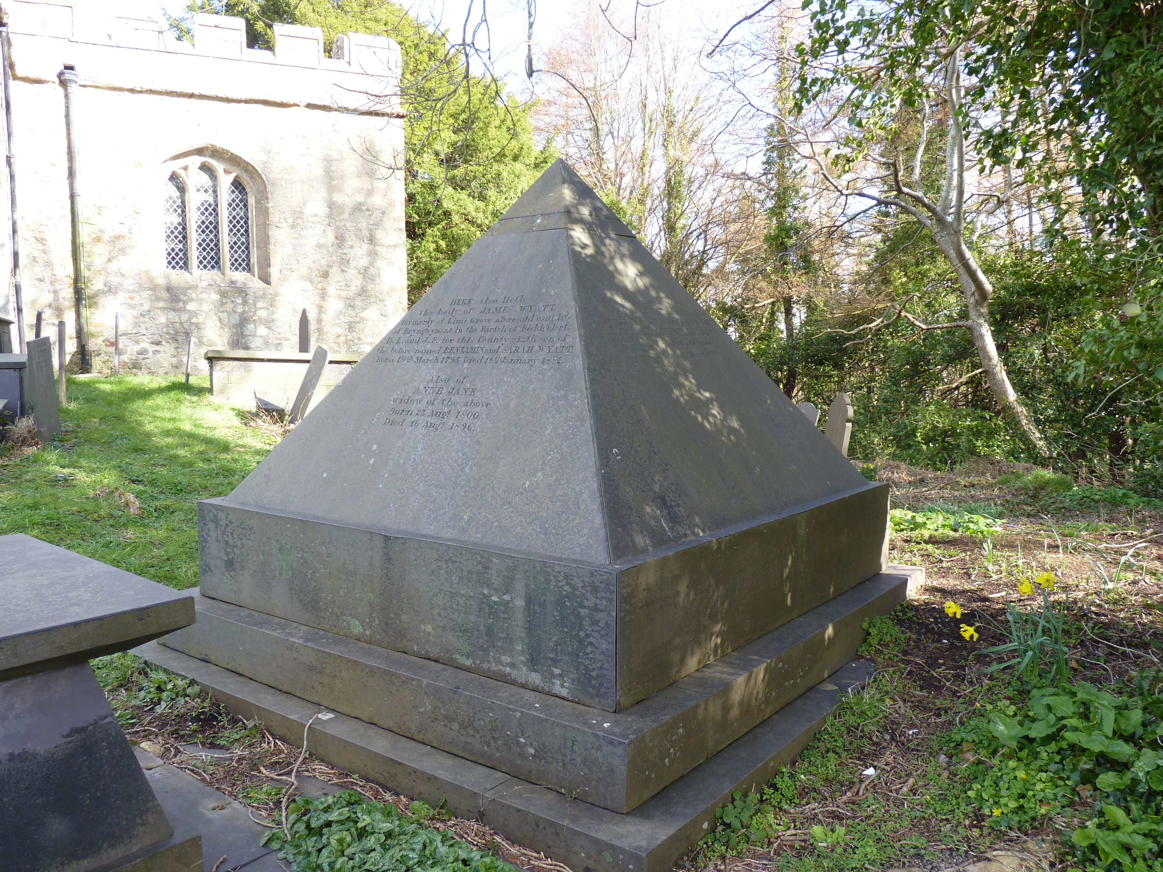 The Wyatt family memorial at St. Tegai's Church, Llandegai